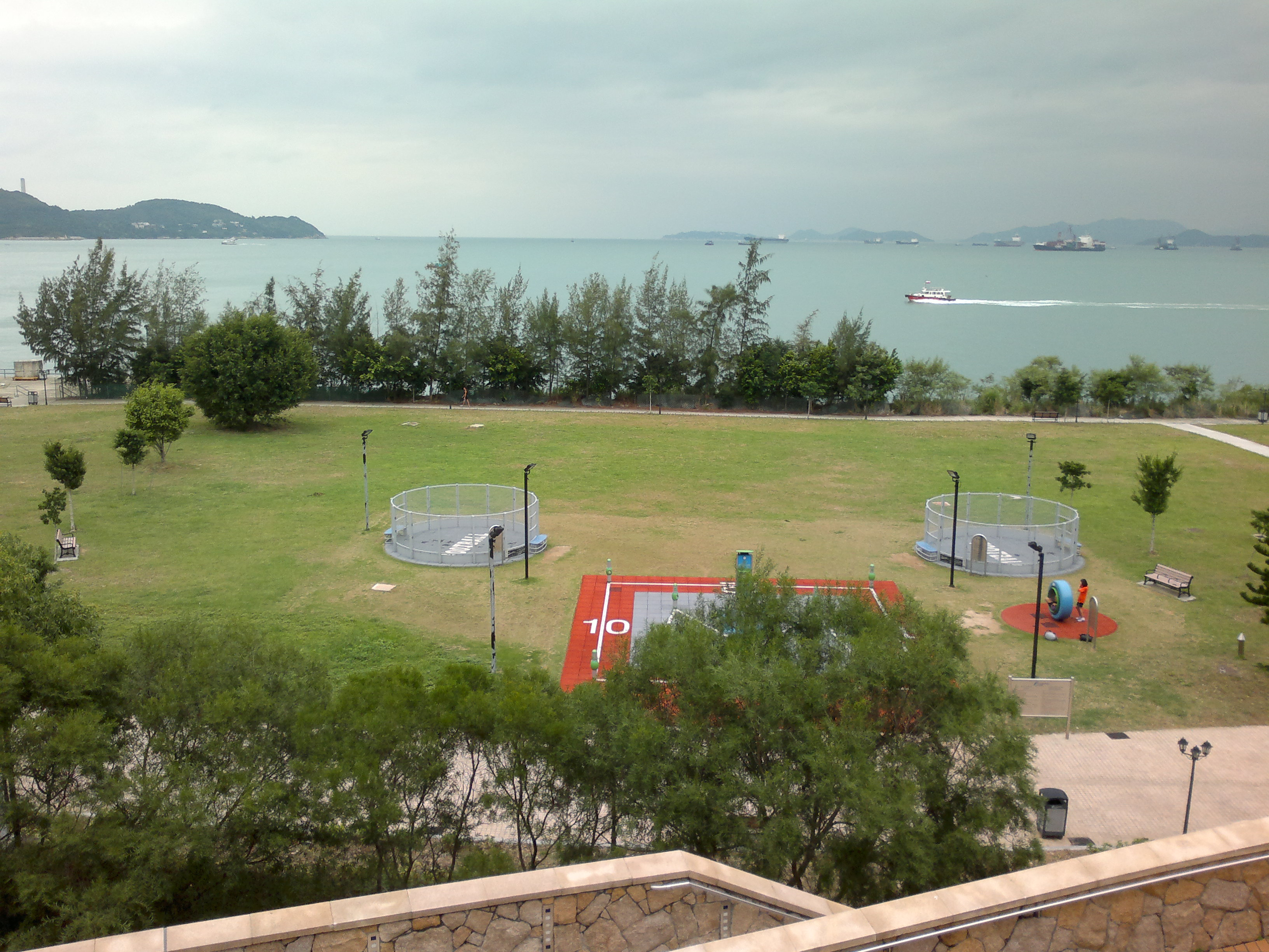 Cyberport Park